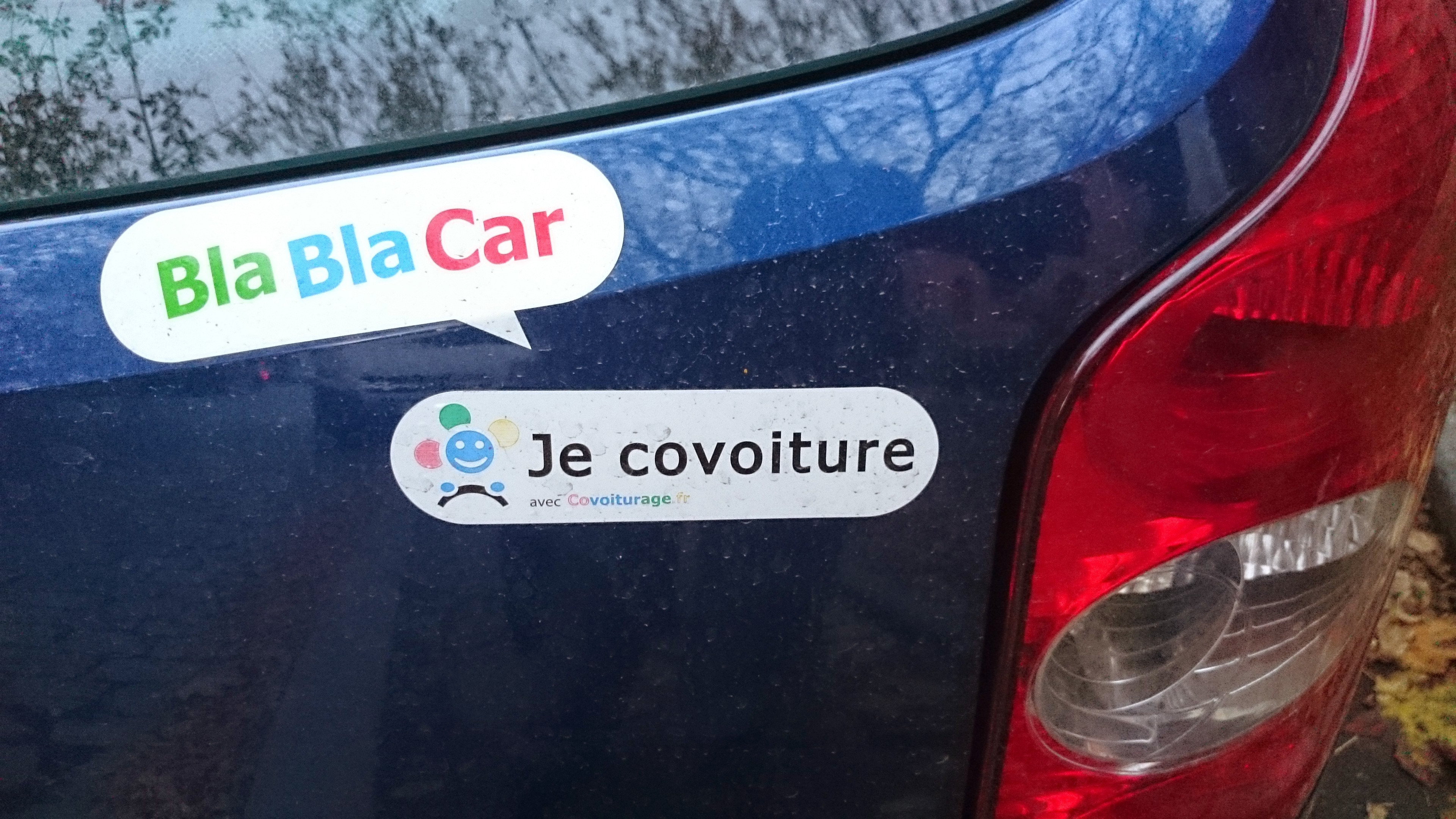 The sticker of the BlaBlaCar on a car.